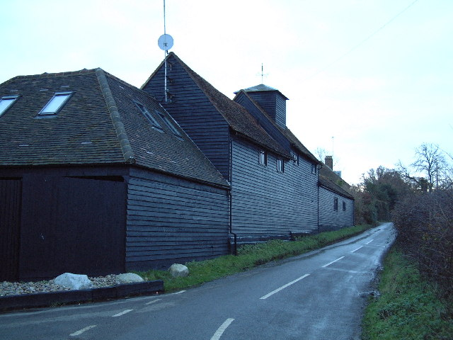 Deeves Hall Barn. At the junction of Mimms Lane, Earls Lane and Deeves Hall Lane.